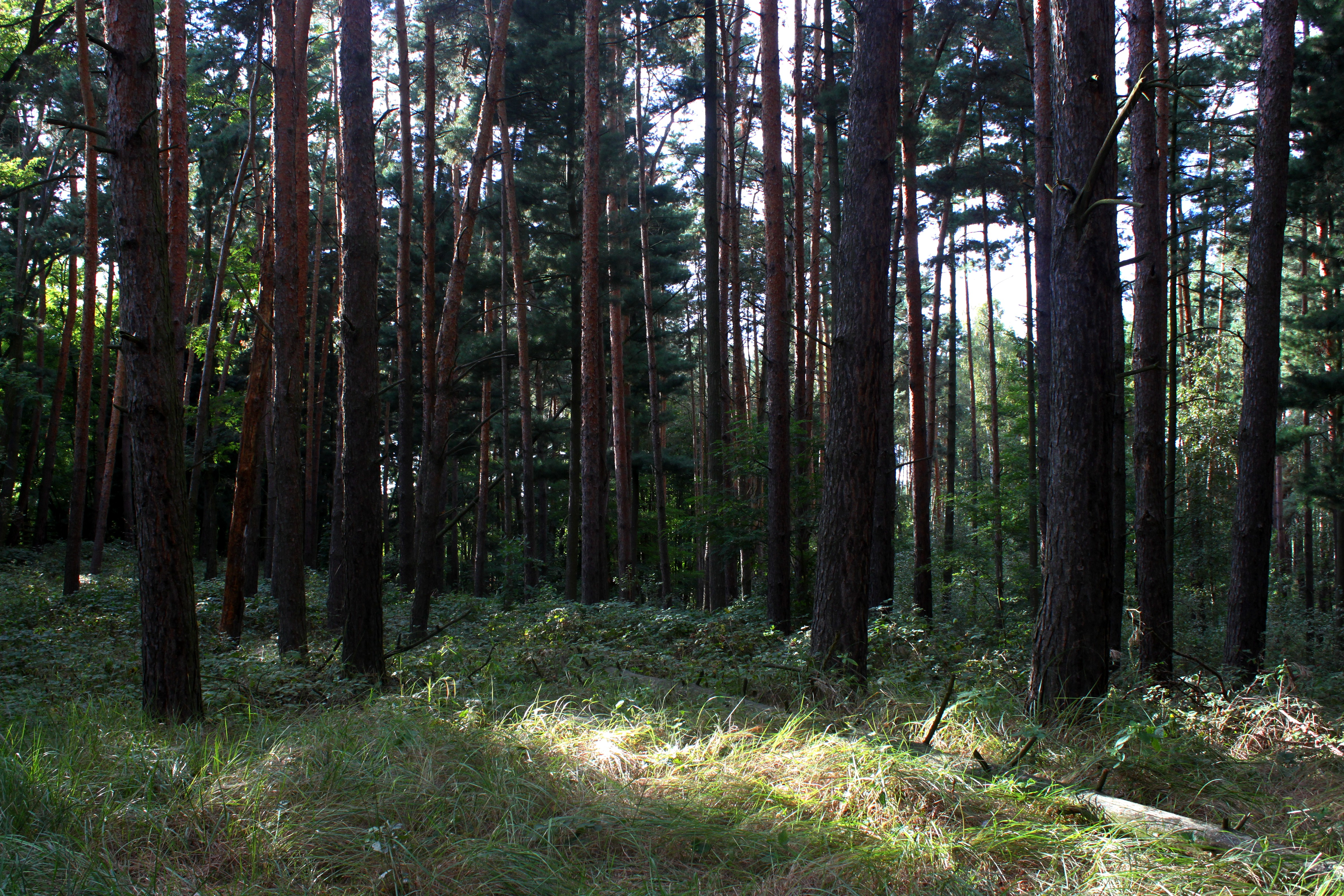 Nature reserve "Duny u Sváravy" in Pardubice District, Czech Republic. Sand dunes with a pine tree forest and some remaining sand loving (psammophilic) vegetation.